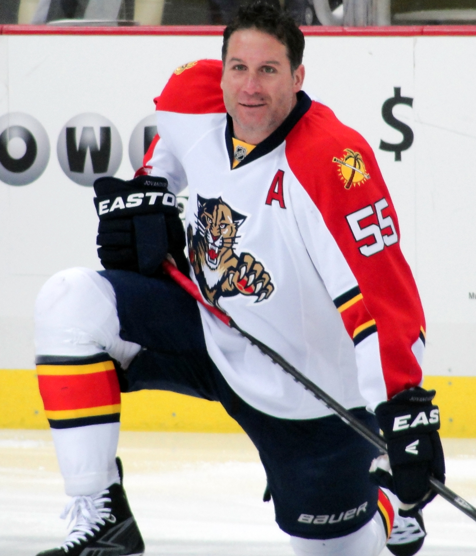 Florida Panthers defenseman Ed Jovanovski skates against the Pittsburgh Penguins, March 9, 2012 at Consol Energy Center in Pittsburgh, PA.